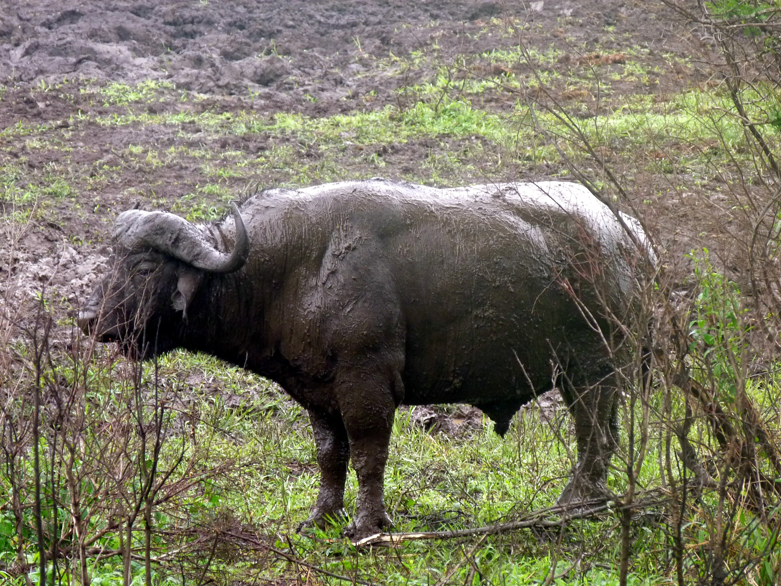 Kaffraria buffalo or Cape buffalo, Hluhluwe-Umfolozi Game Reserve, KwaZulu-Natal, South Africa